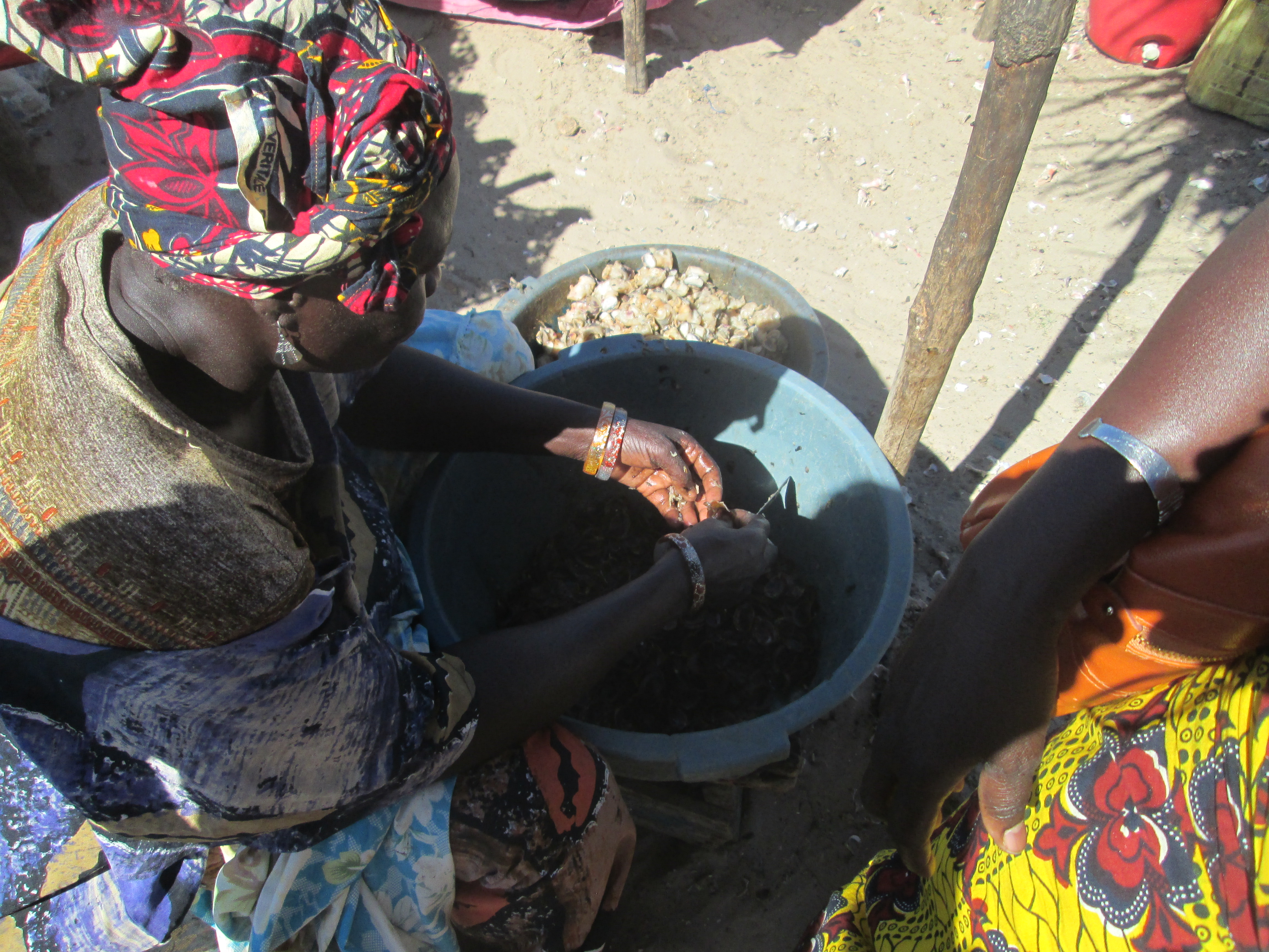 Images from Wiki Loves Africa 2014